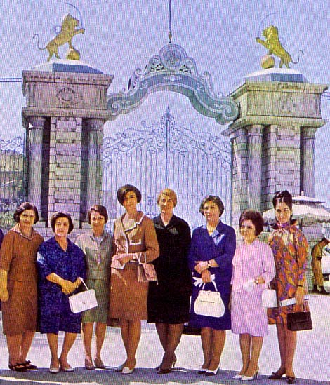 Women Parliamentarians of Iran in front of the gate of the Iranian Parliament (Majlis Shoraye Melli), mid 1970s